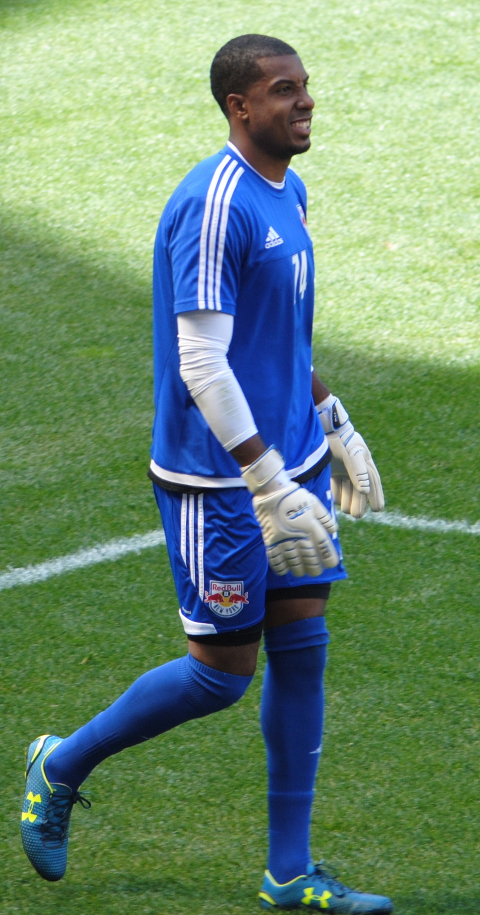 Diaz Red Bulls II